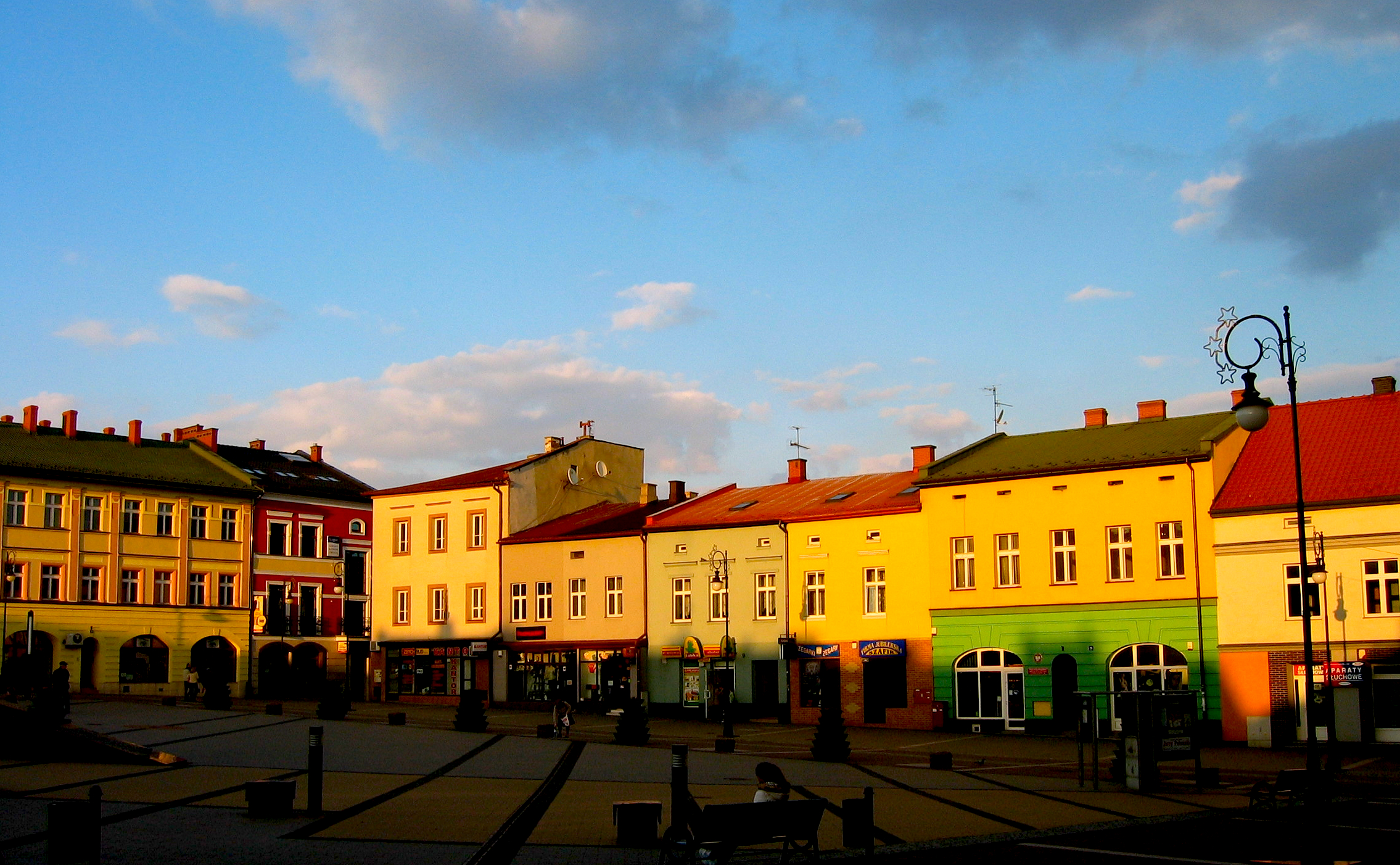 Market Square in Chrzanów